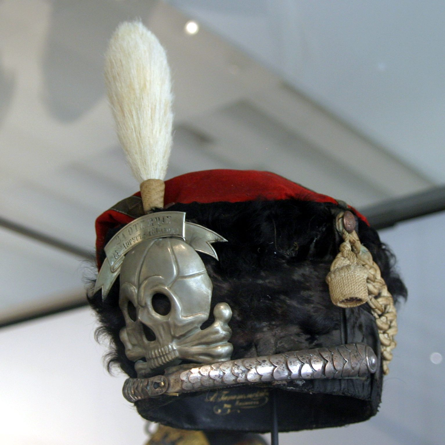 This image was taken at the Musée de l'Armée, Paris.